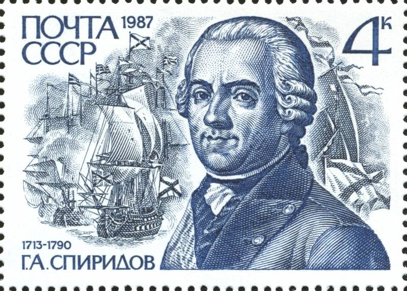 A USSR stamp, 4k indigo, Admiral Spiridov, Michel 5780, Scott 5623a